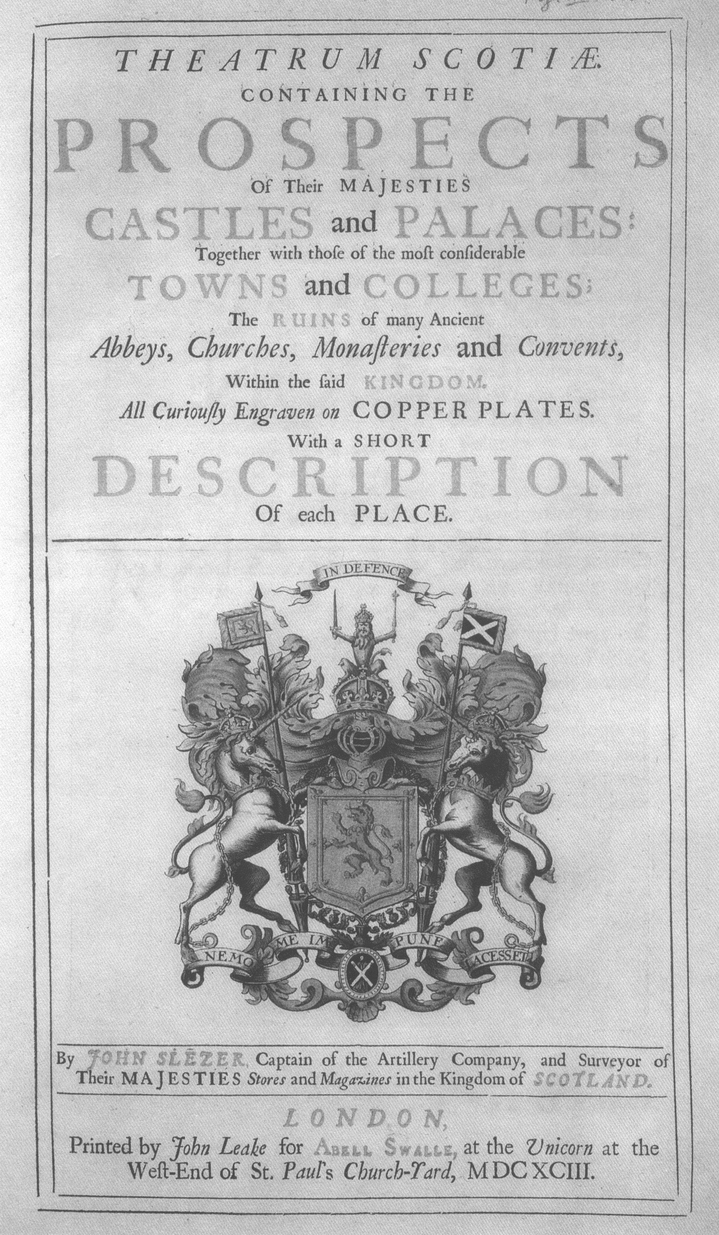 Title page of John Slezer's Theatrum Scotiae, published 1693